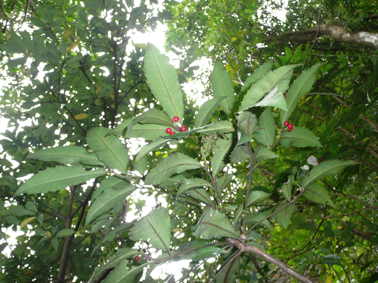 Ardisia cornudentata somewhere in Taiwan